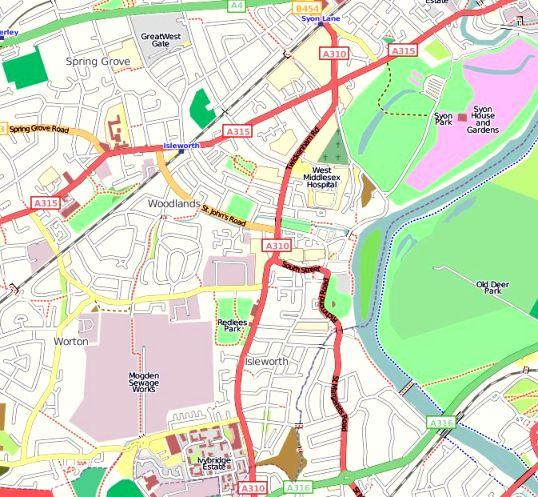 Map of Isleworth